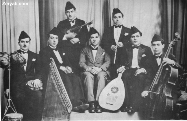 A typical arabic takht (ensemble)